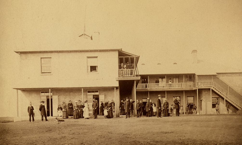 Adams Mission: Side view of Jubilee Hall Natal South Africa. View of US missionaries at Jubilee Hall, Adams Mission, Amanzimtoti, near Durban, South Africa. Jubilee Hall dated 1886 to mark the 50th anniversary of the mission arriving.